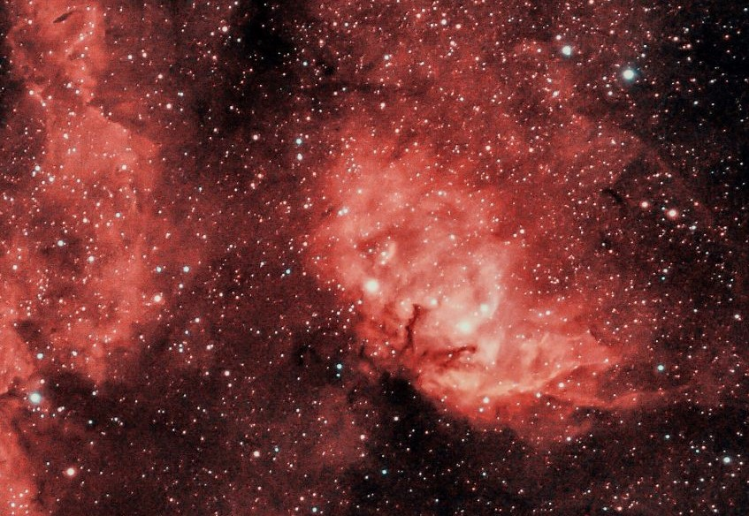 This picture contains Sh2-101 (the Tulip Nebula). It was created by putting Ha in the Red channel and OIII in Green and Blue channels. Target: Sh2-101 (Tulip) Imaging Telescope: Orion ED80T CF (480 focal length) Mount: Celestron CGX Polar Alignment: QHYCCD PoleMaster Imaging Camera: ZWO ASI1600MM-Cool Filters: Ha=82x180s OIII=43x180s Total Exposure Time: 6.2 hours Gain: 139, Offset: 21 Guide scope: Orion ST80 Guide Camera: Lodestar X2 Guide Software: PHD2 Calibration Frames: Darks: 50, Bias: 50, Flats: 50 Capture software: Sequence Generator Pro (SGP) Stacking software: DeepSkyStacker Post Processing: PixInsight, PhotoShop Dew Shield, Dew Heater Strip